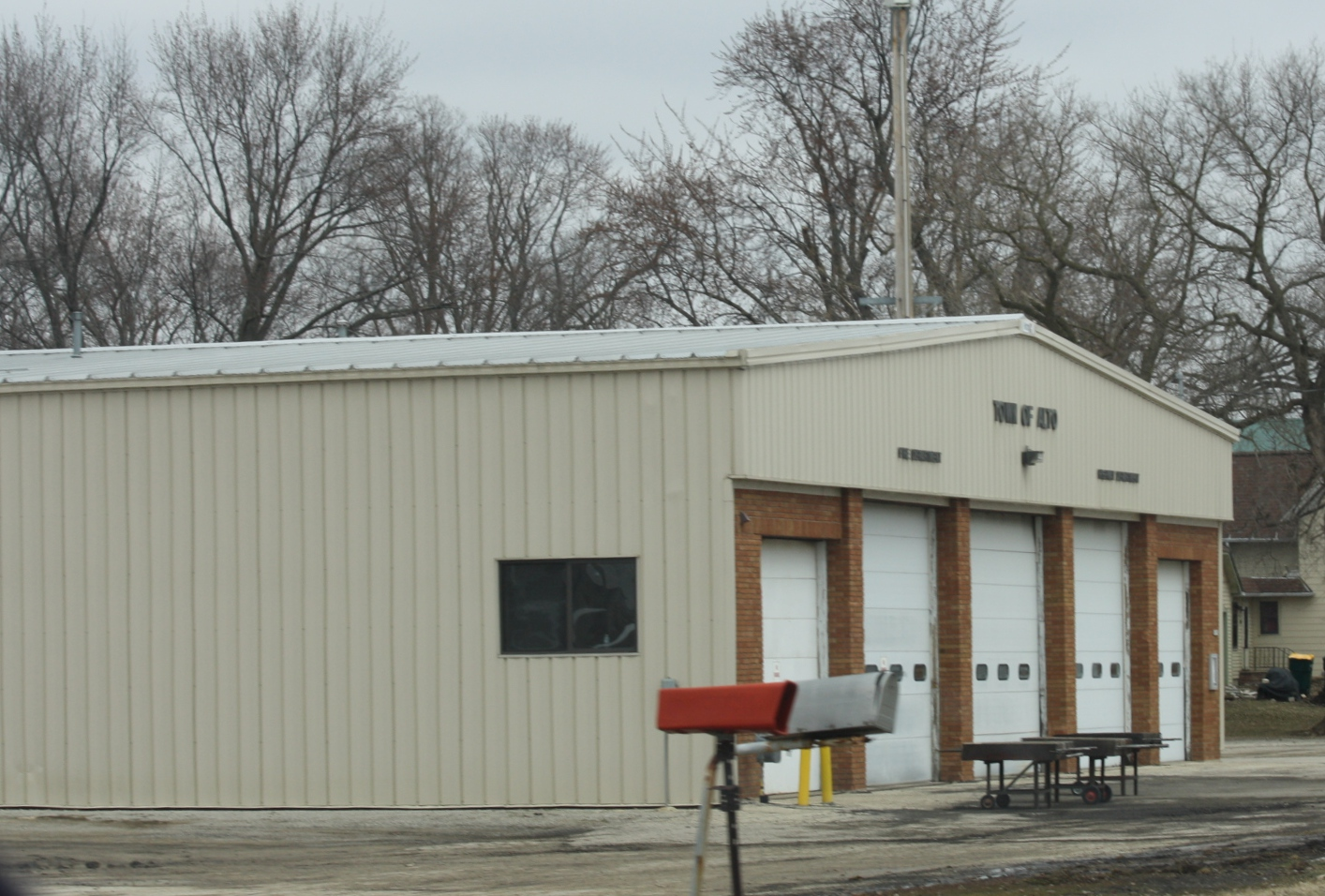 The fire department for the town of Alto in the unincorporated community of Alto, Wisconsin.